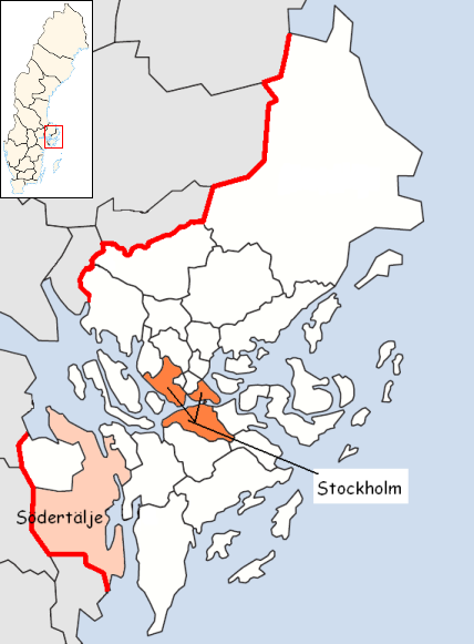 Södertälje Municipality in Stockholm County Designed by me. Mere outlines are a PD source from